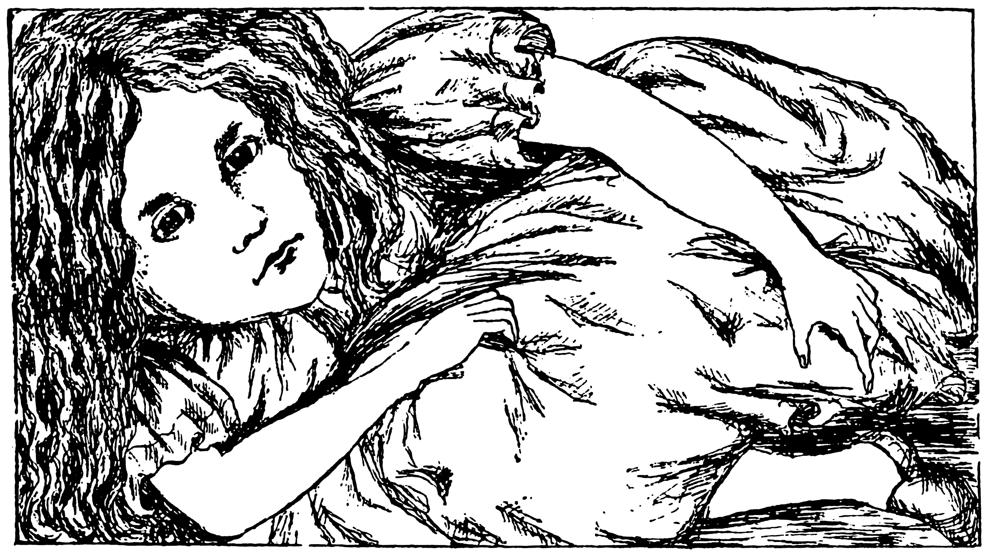 Illustration from page 37